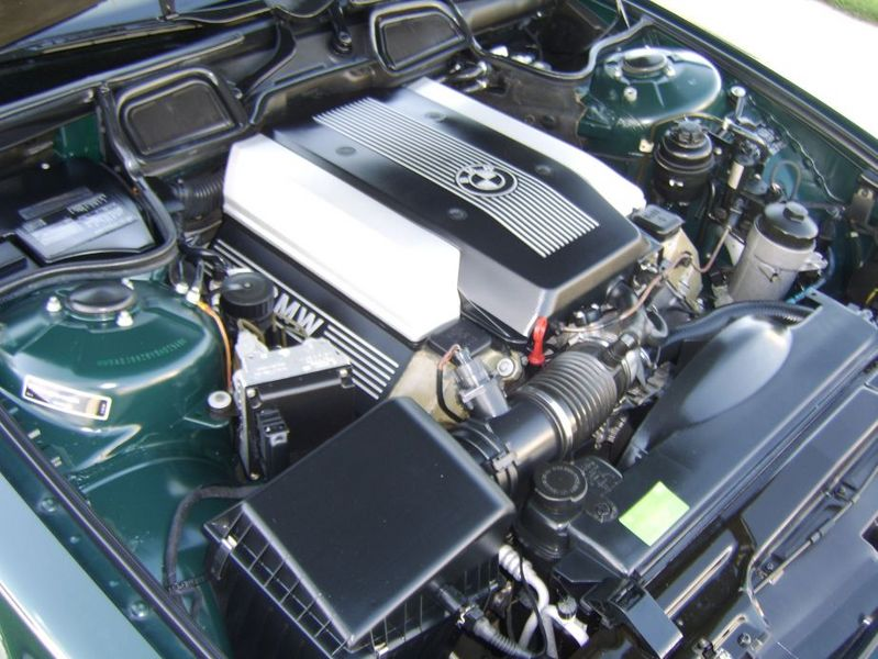 1997 BMW M62 V8.